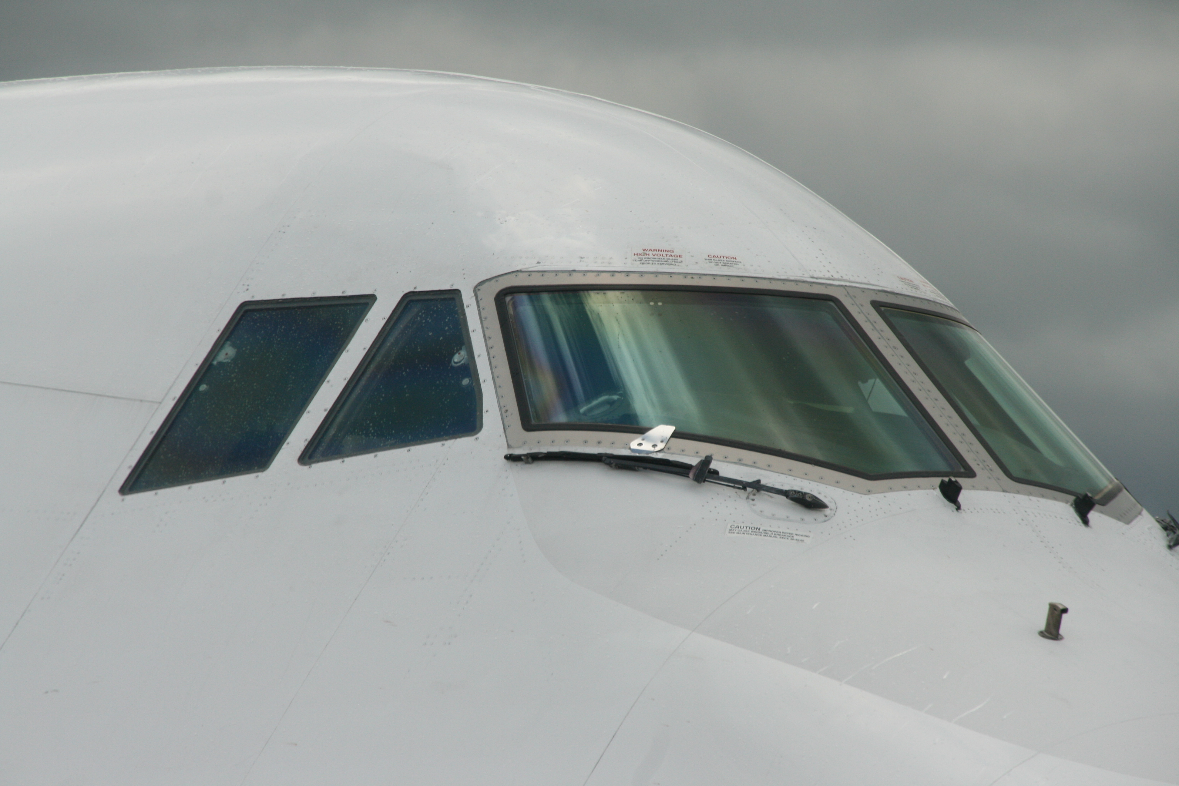 Lufthansa Boeing 747-430 D-ABTA Cockpitsection with many decalls and details 6678